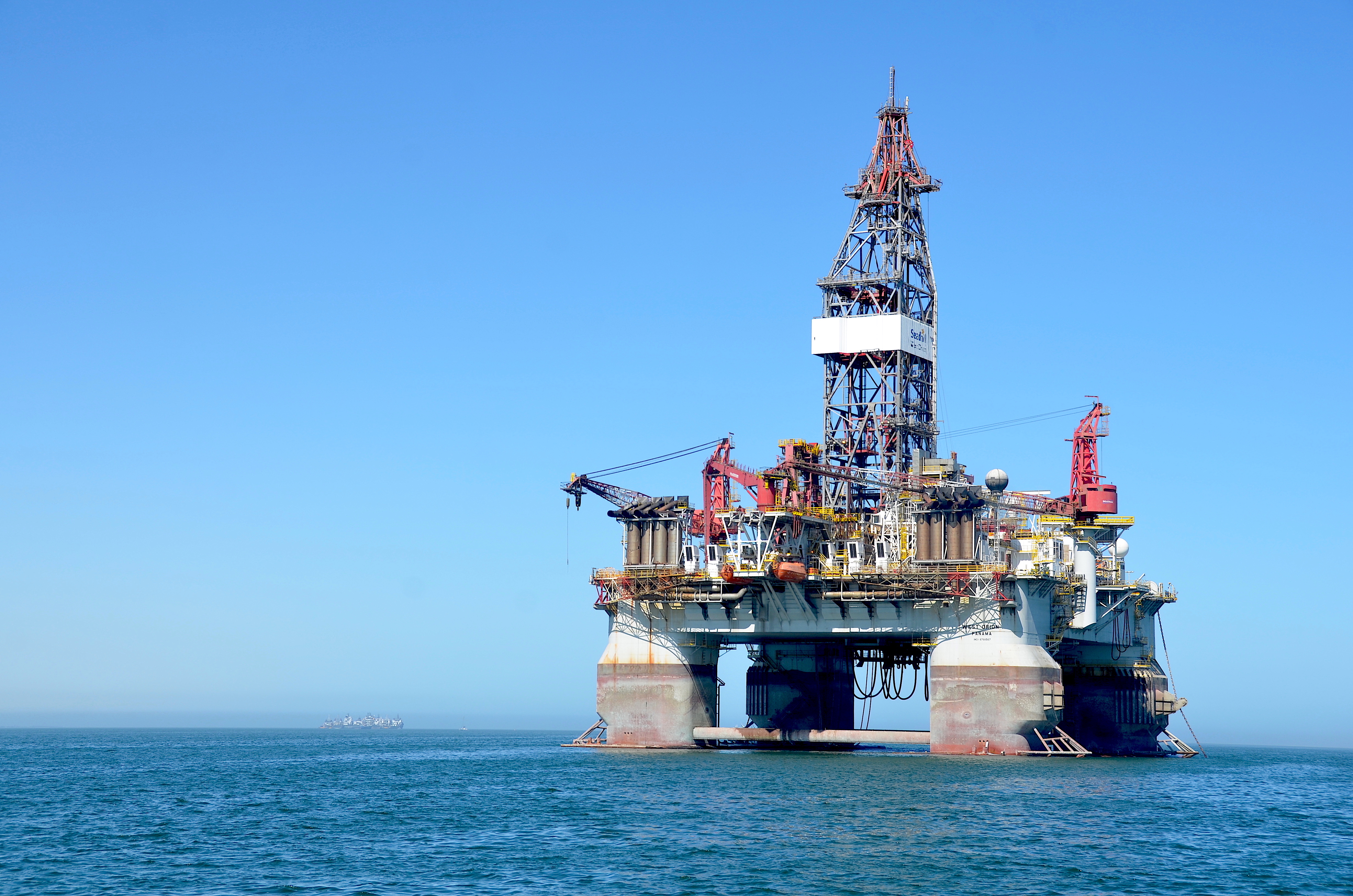 Oil platform West Orion near Walvis Bay (2017)